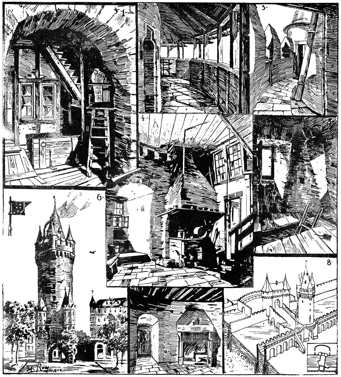 Heading: Exteriors and interiors of the Eschenheimer Turm (Eschenheimer tower). / Subheading: After a painting of the year 1896. / Cutline: 1. Tower stairs. 2. Lower parapet walk. 3. Upper parapet walk at the battlement. 4. Kitchen 5. Staircase in the upper part. 6. Exterior view 1896. 7. Room in the upper floor with a gothic chimney. 8. Former exterior view.